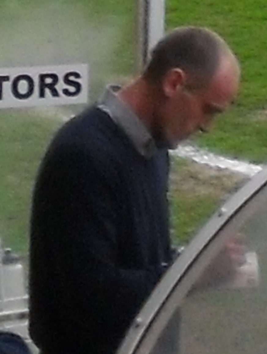 Steve Tutill before York City's match against Eastbourne Borough at Bootham Crescent, York on 12 March 2011